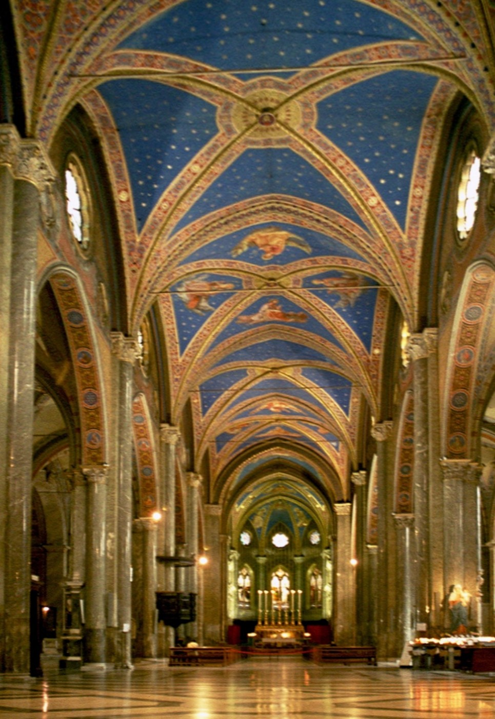 Inside view of Santa Maria sopra Minerva church in Rome, Italy.